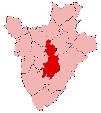 Map of the province of Gitega in Burundi